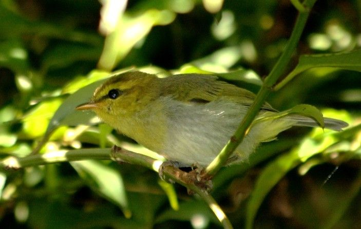 Yellow-throated Wood-Warbler (Phylloscopus ruficapillus). Aka Yellow-throated Woodland-Warbler, Phylloscopus ruficapilla. Location: Pietermaritzburg, South Africa.